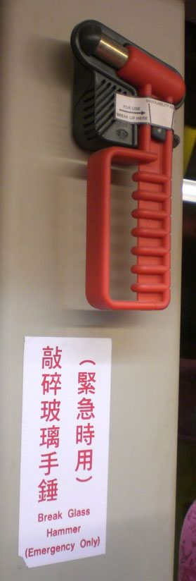 Description= 特製用於擊碎鋼化玻璃的玻璃鎚子 Tempered Glass Hammar Author= HKmamar